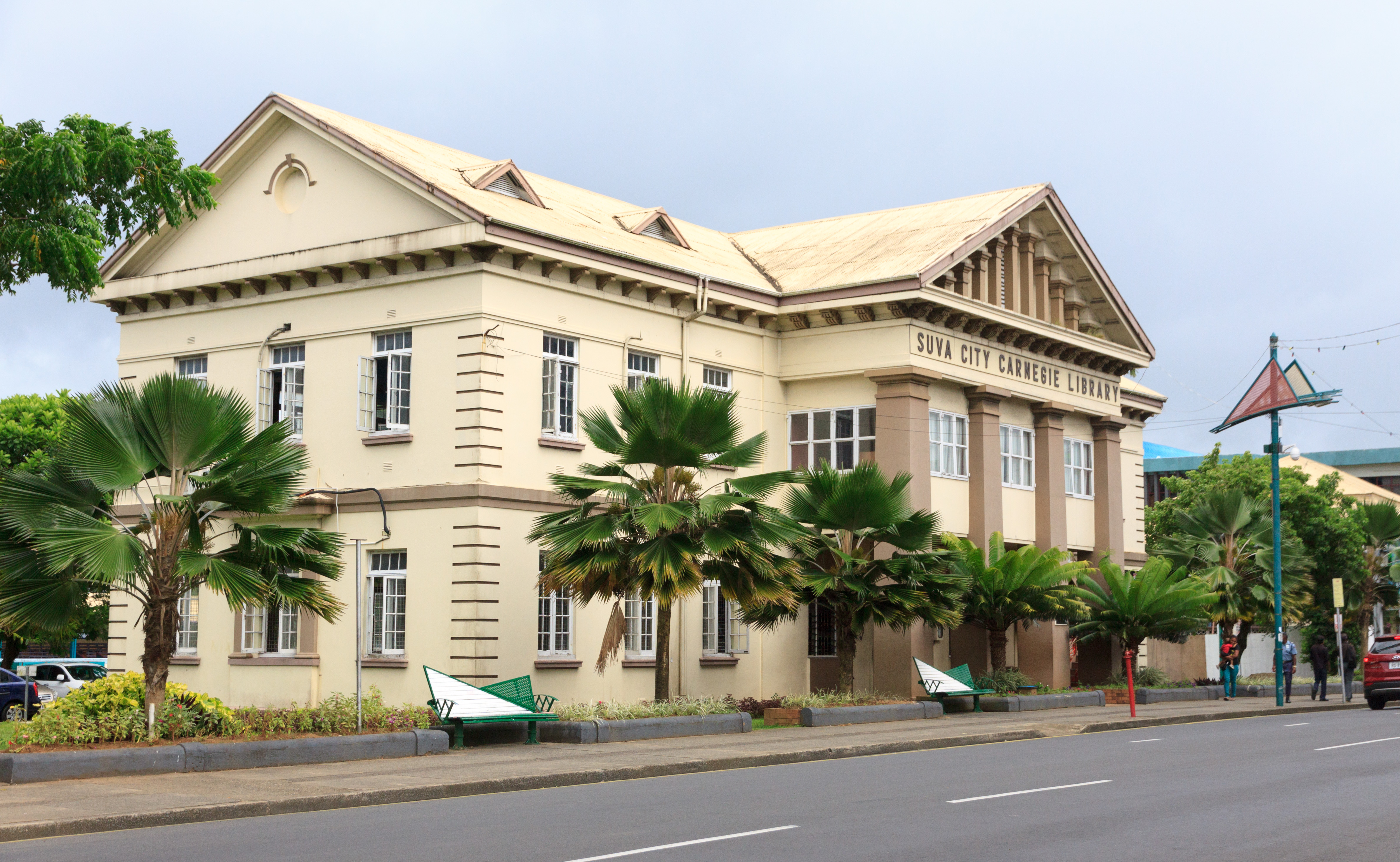 The Suva City Carnegie Library